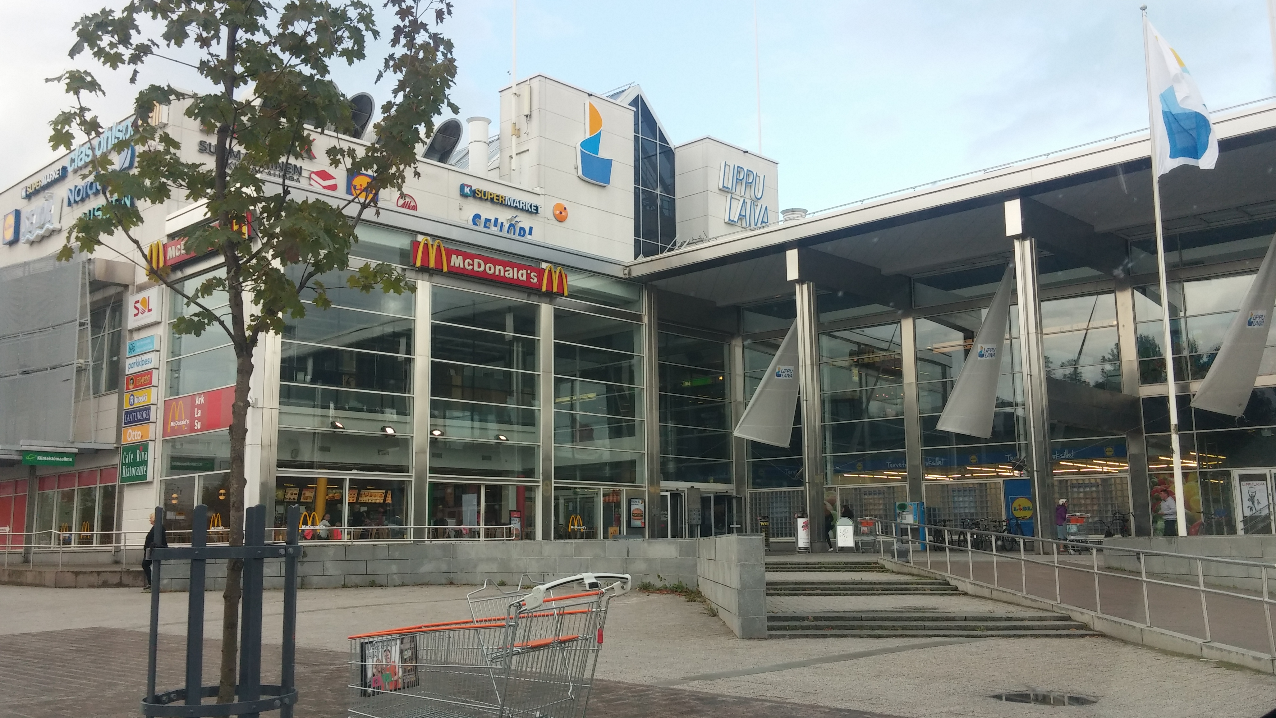 Lippulaiva is a shopping mall in Espoo, Finland.